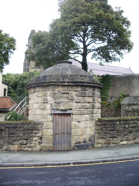 The Roundhouse, Ruabon An early 18th century jail house